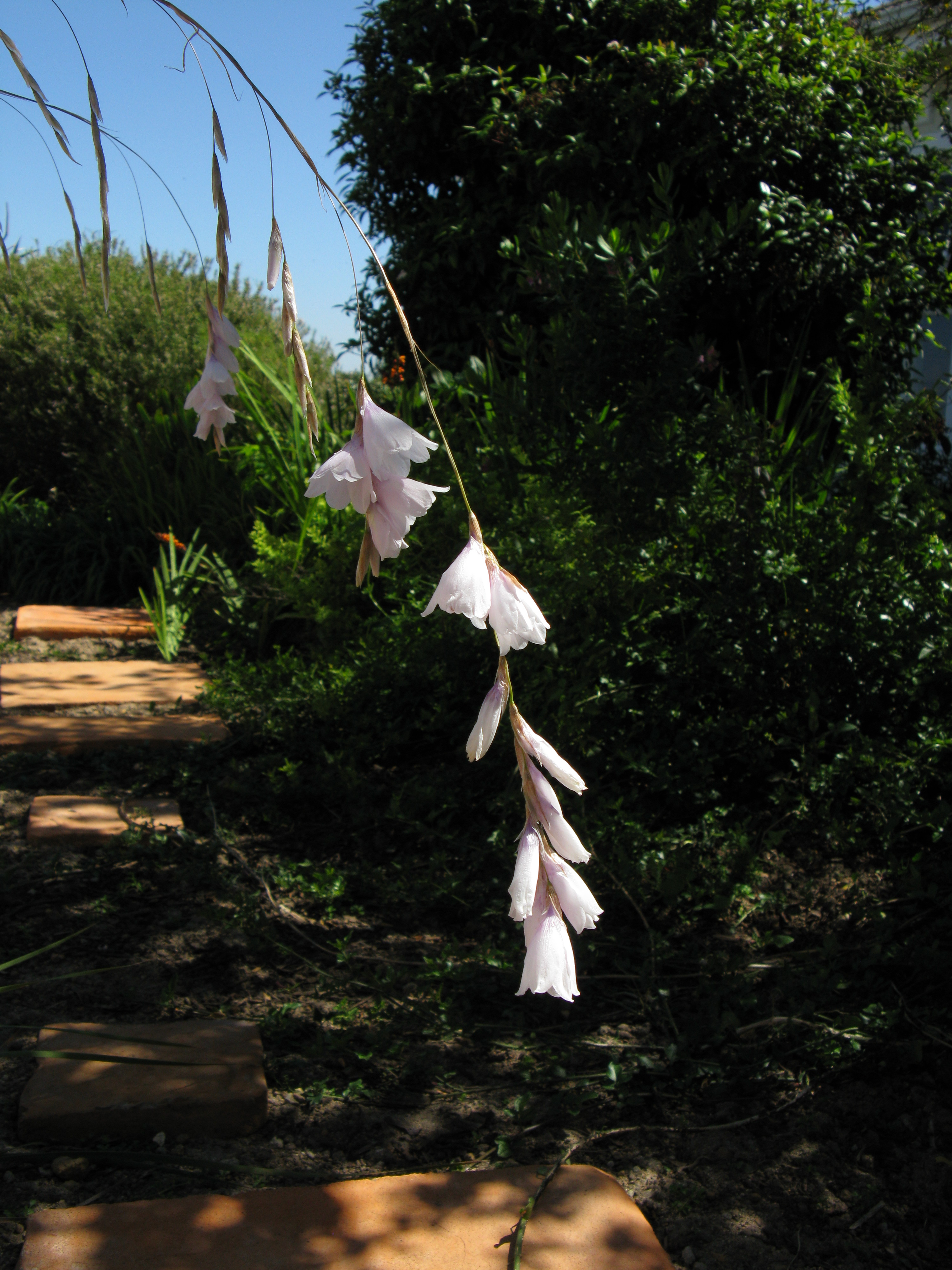 The hanging flowers gave rise to common names such as "Harebells" or "Hairbells"